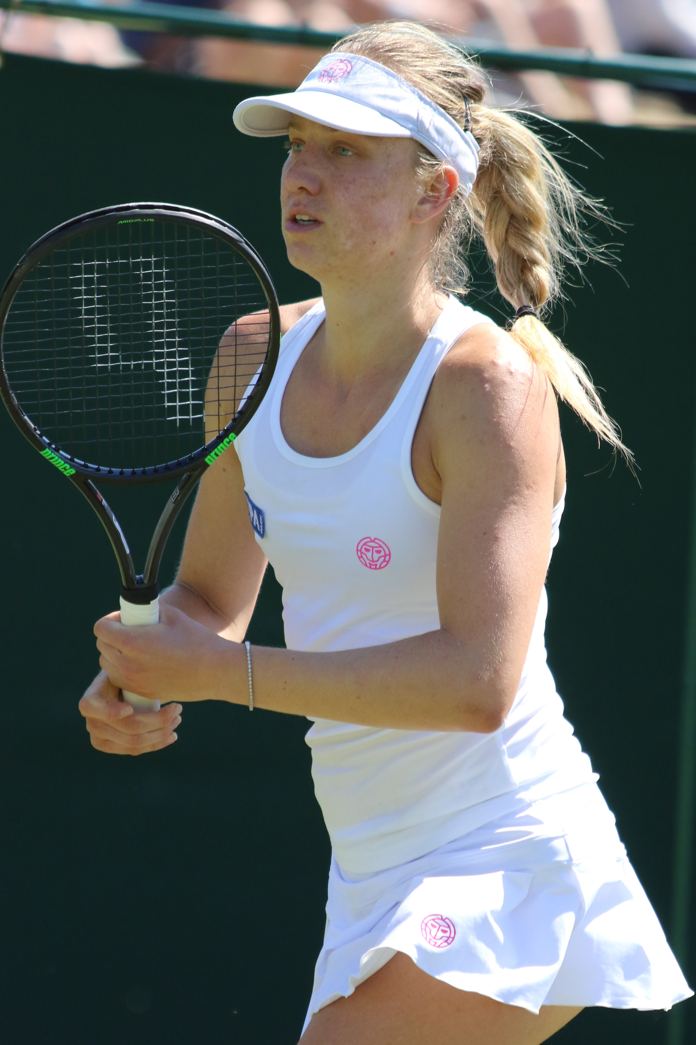 Barthel WMQ18 (21)